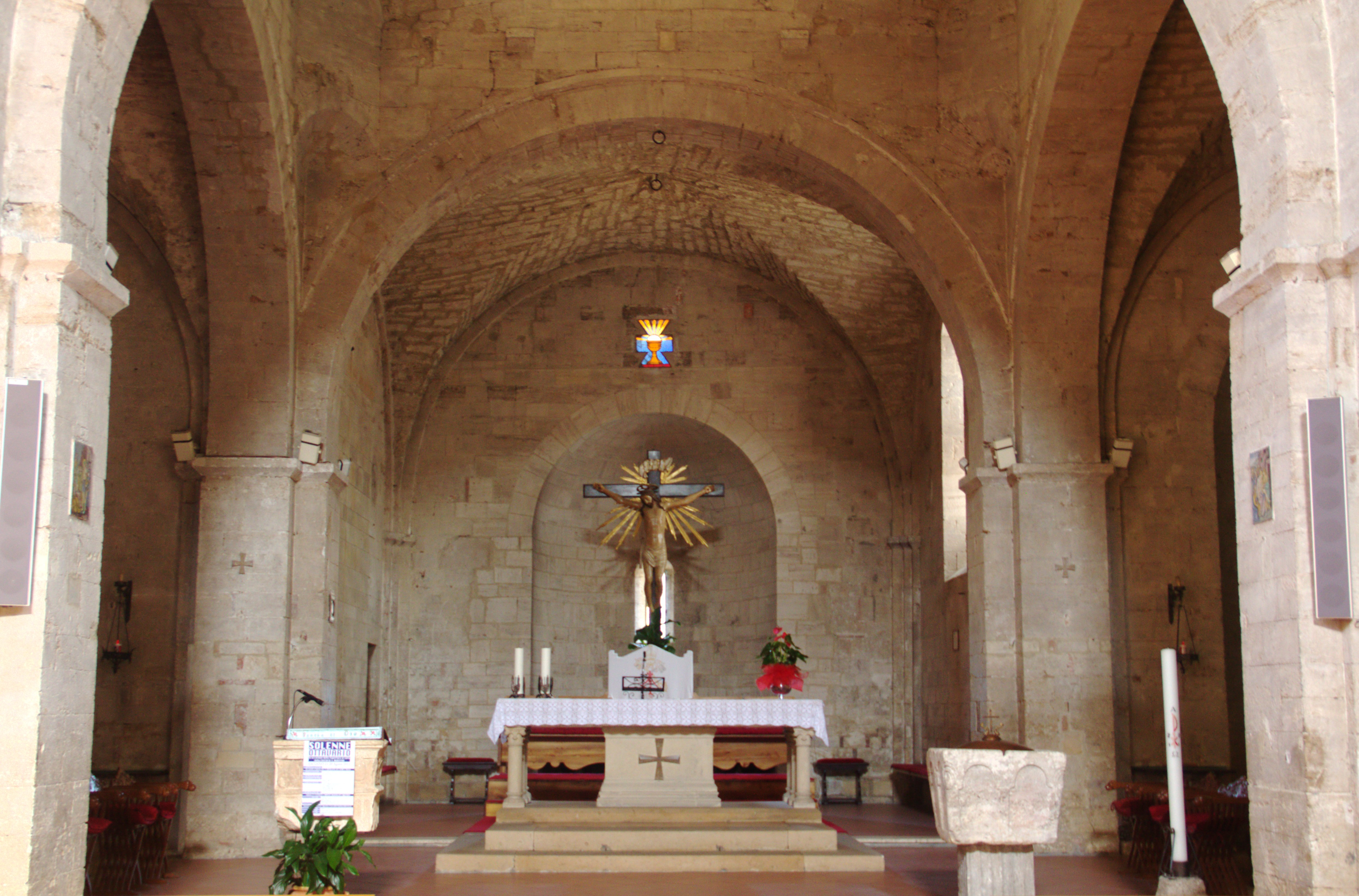 Sant Agathe, Asciano inside